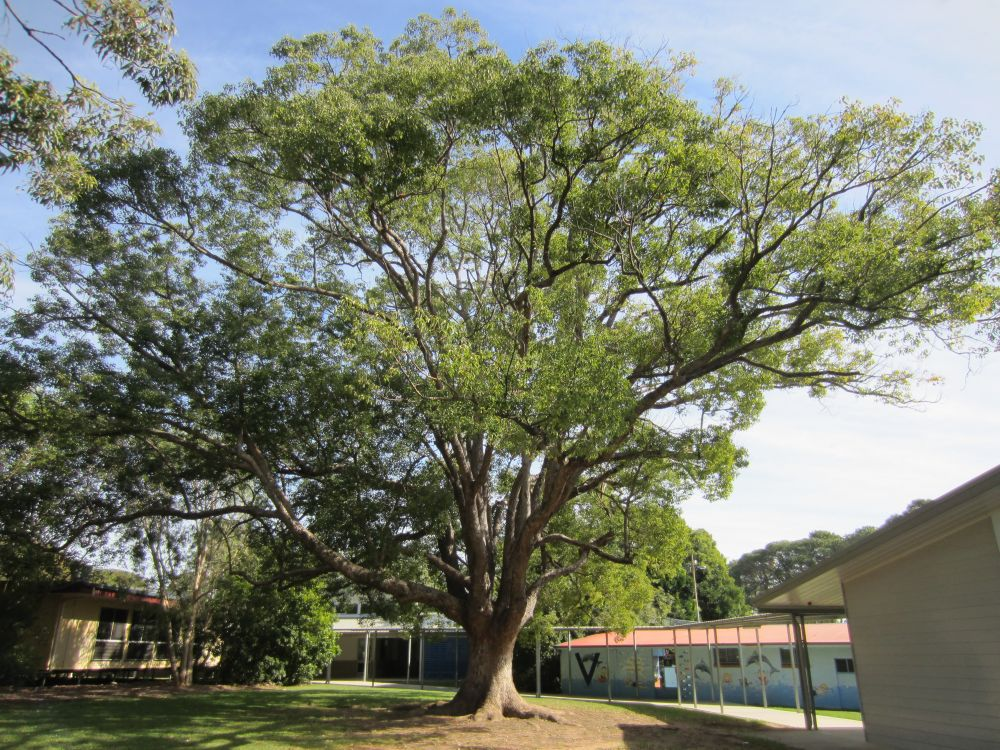 Virginia State School - Camphor laurel behind pool, from NE (2015)